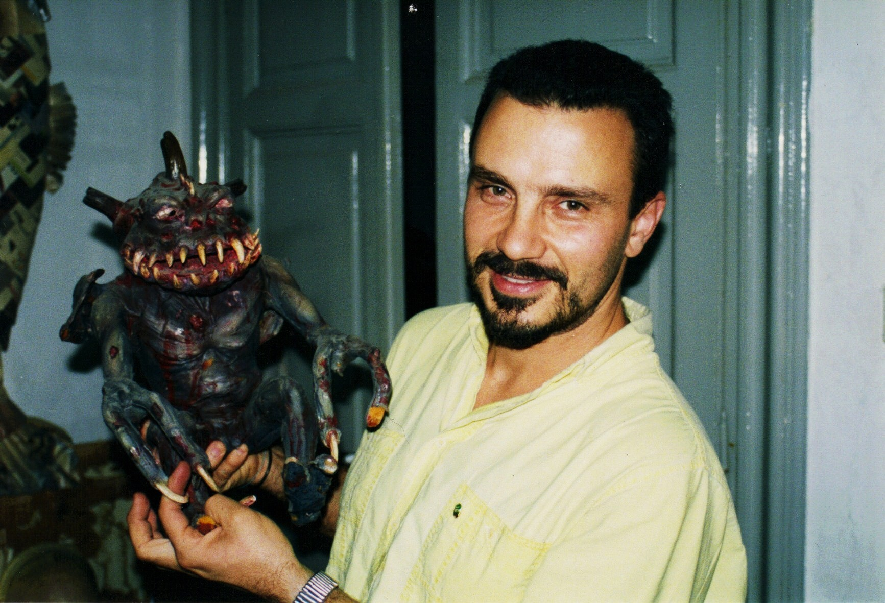 Special effects technician and film director Sergio Stivaletti